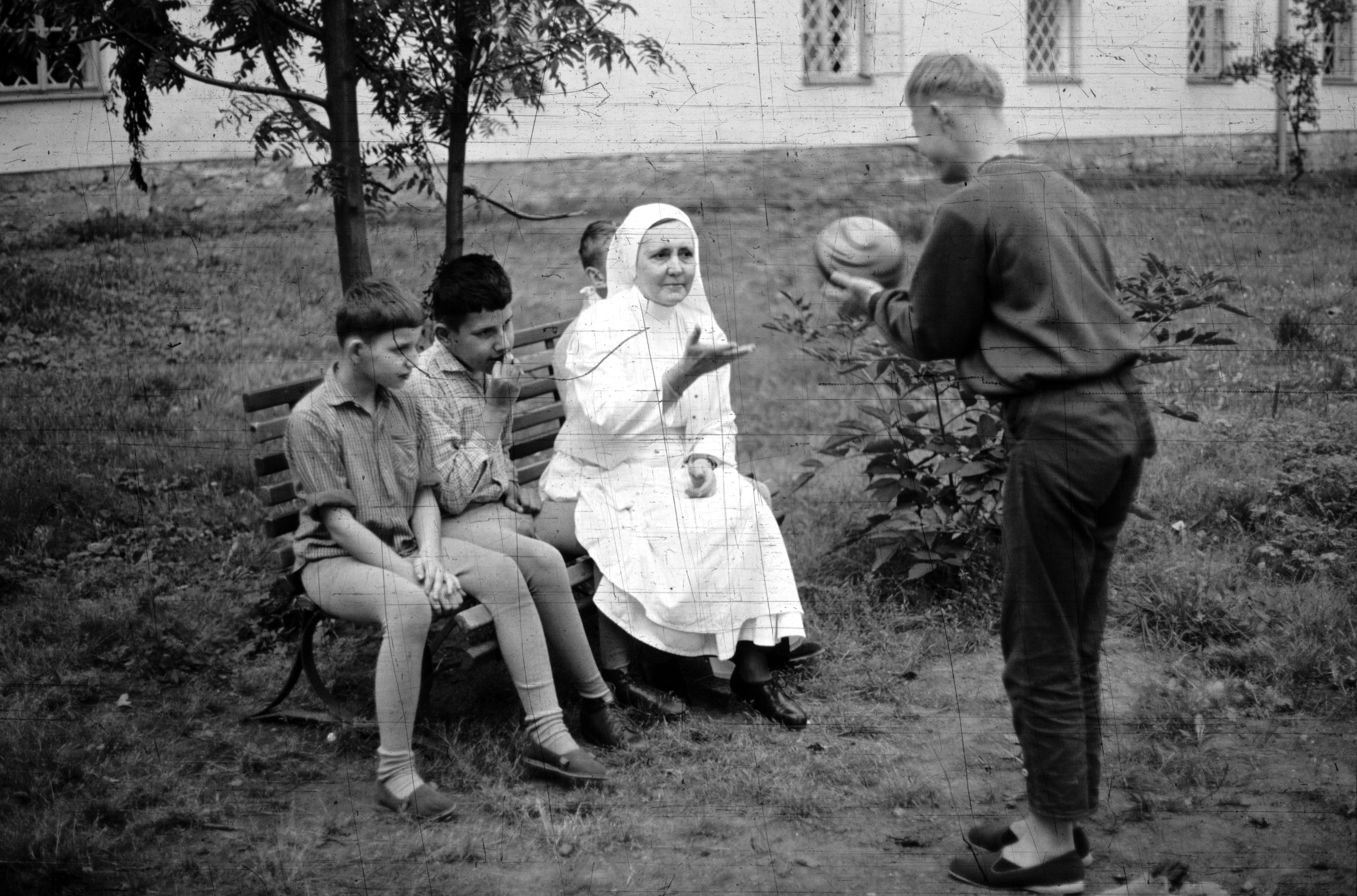 Archivní fotografie, rok 1970